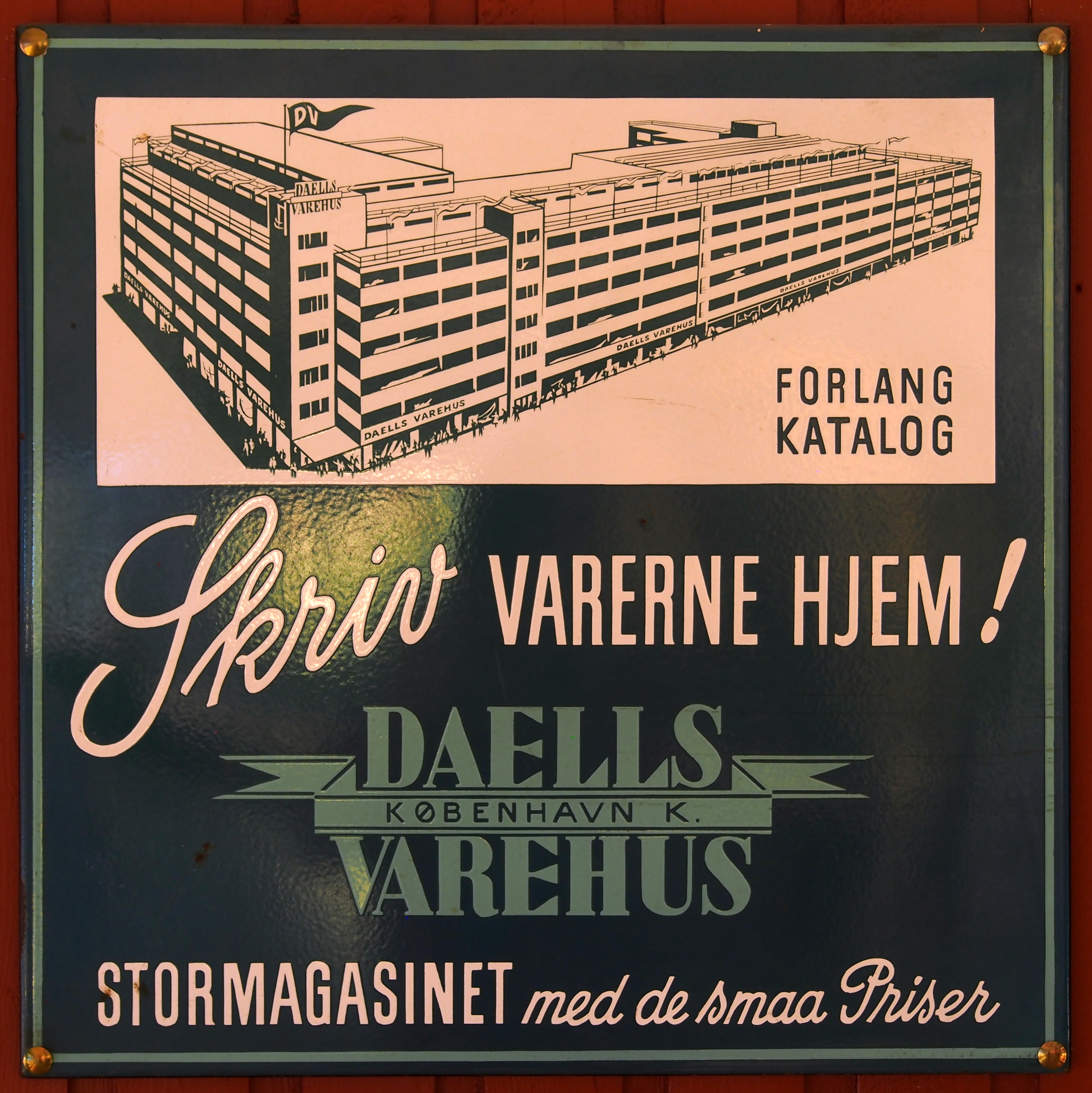 Photographed at the Danmarks Jernbanemuseum.